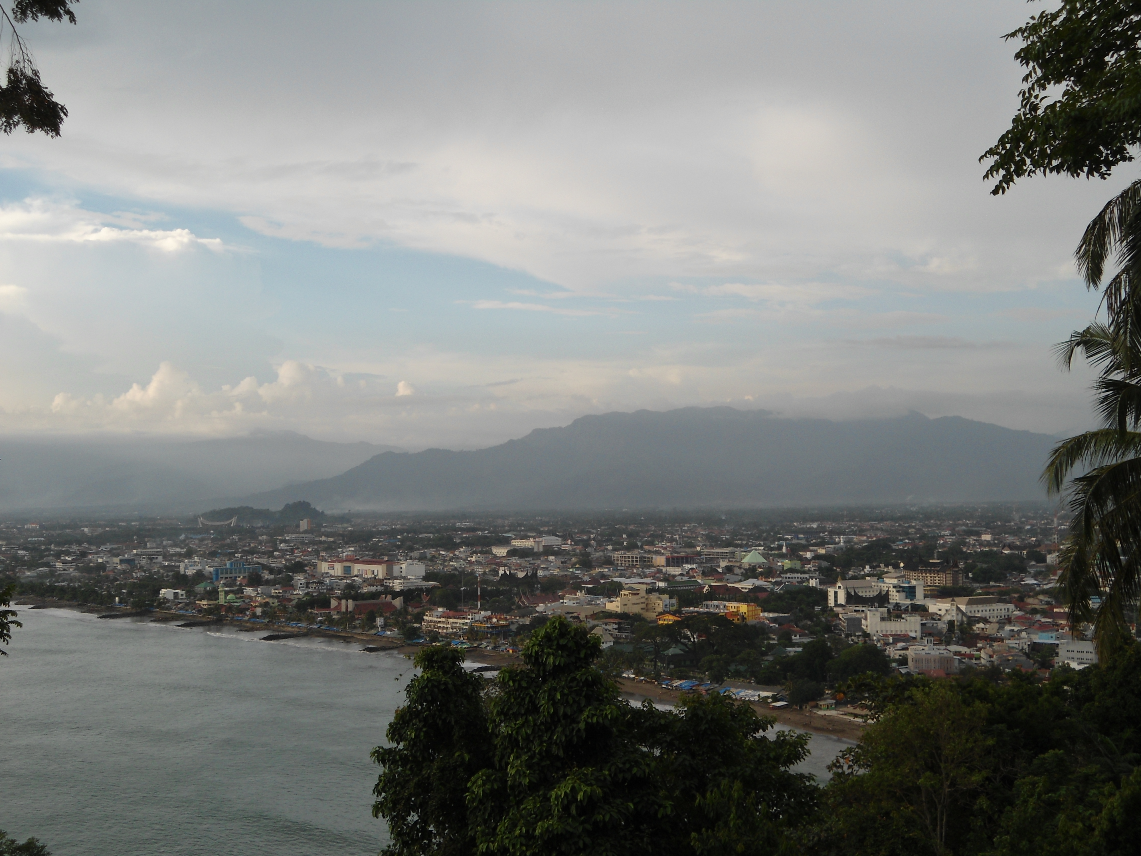 Padang dari Gunung Padang